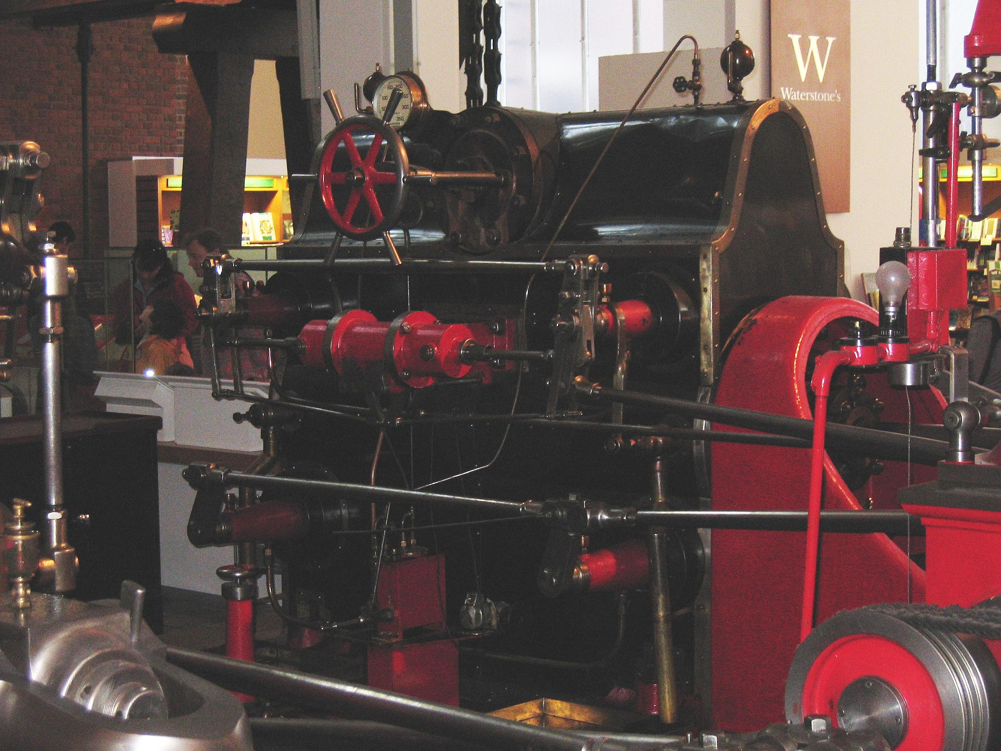 Corliss valvegear on a large stationary steam engine